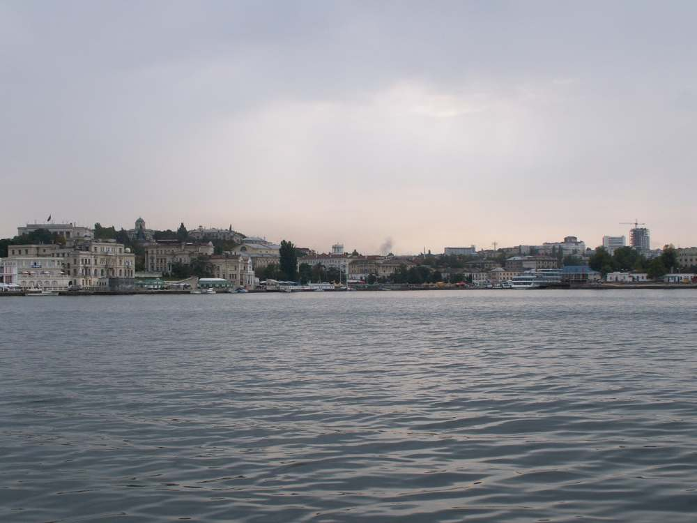 View of Sevastopol. Photo by Al Silonov